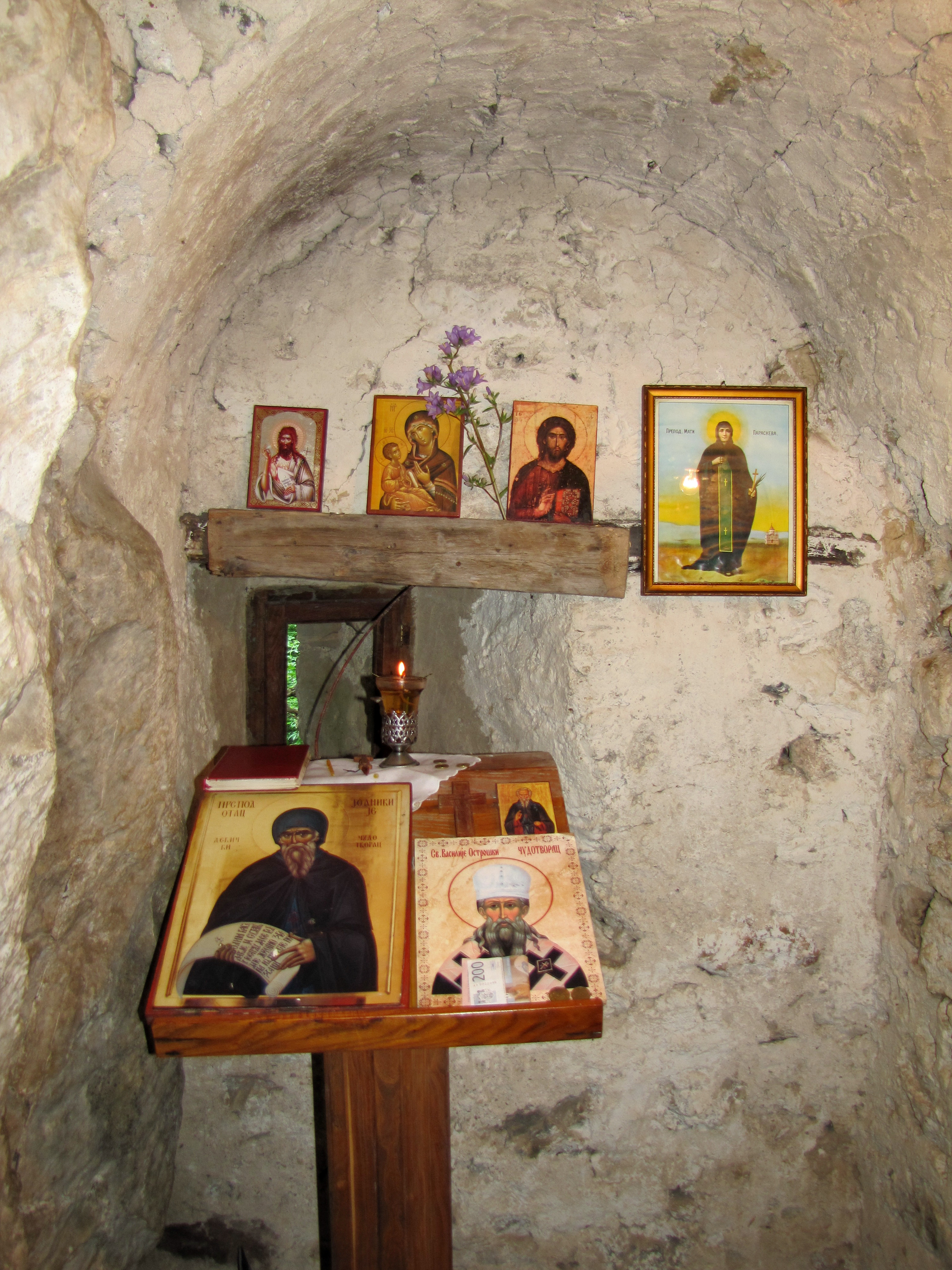 Monastery Crna Reka near Tutin (SW Serbia).